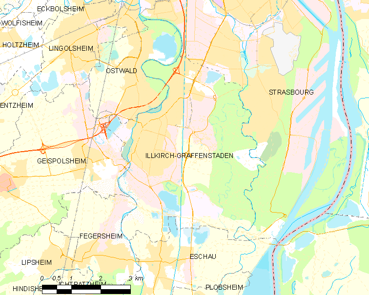 Map of French municipality